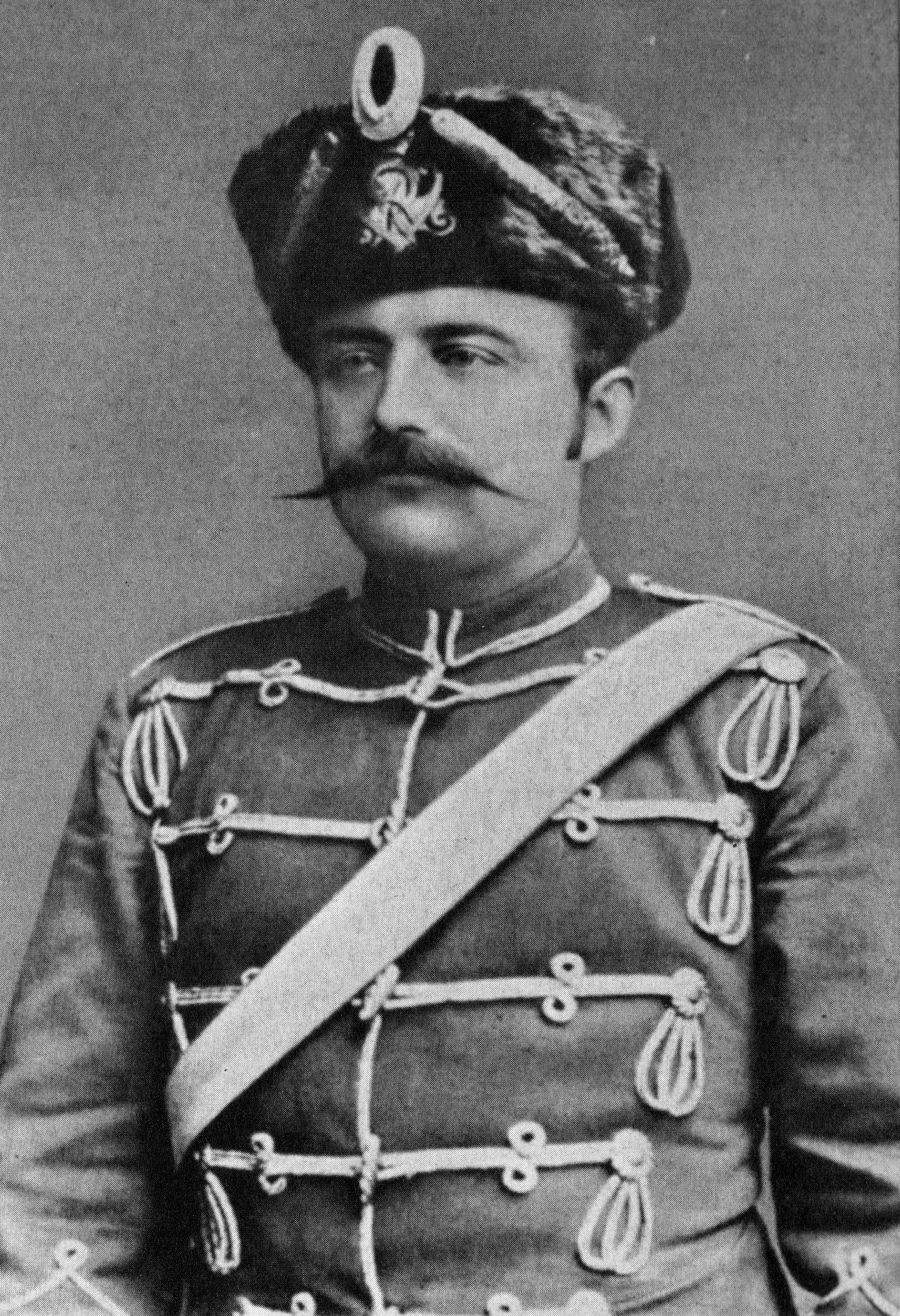 Paul Riebeck (1859-1889) (Source: Illustrierte Zeitung, 20. September 1884)